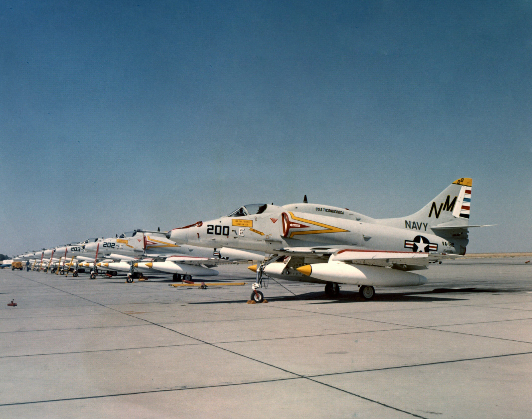 U.S. Navy Douglas A-4F Skyhawks of Attack Squadron 192 (VA-192) "Golden Dragons". VA-192 was assigned to Carrier Air Wing 19 (CVW-19) aboard the aircraft carrier USS Ticonderoga (CV-14) from late 1967 to August 1968. The A-4F in the foreground (BuNo 154186) is the personal aircraft of the Commander Carrier Air Wing 19.